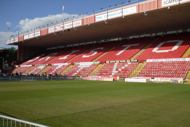 Bristol City F.C.'s ground at Ashton Gate during the daytime, and empty